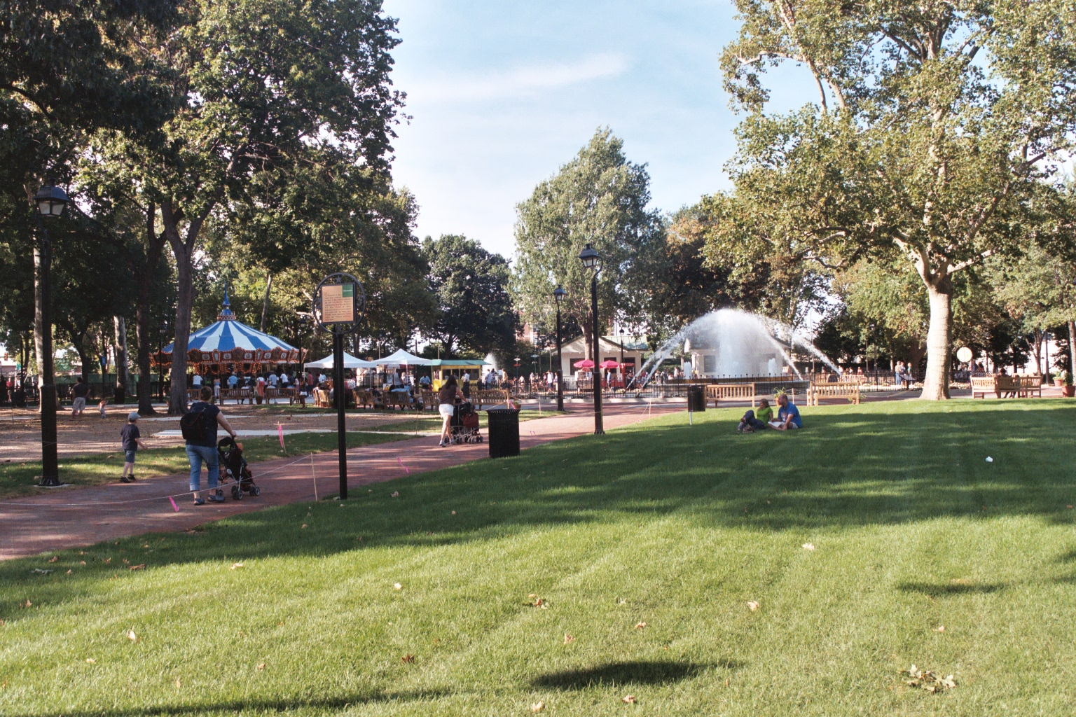 Franklin Square at 5th Street and Vine, Philadelphia, Pennsylvania